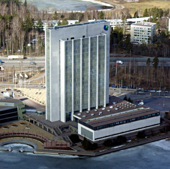 Headquarters of Fortum Corporation in Keilalahti, Espoo, Finland.